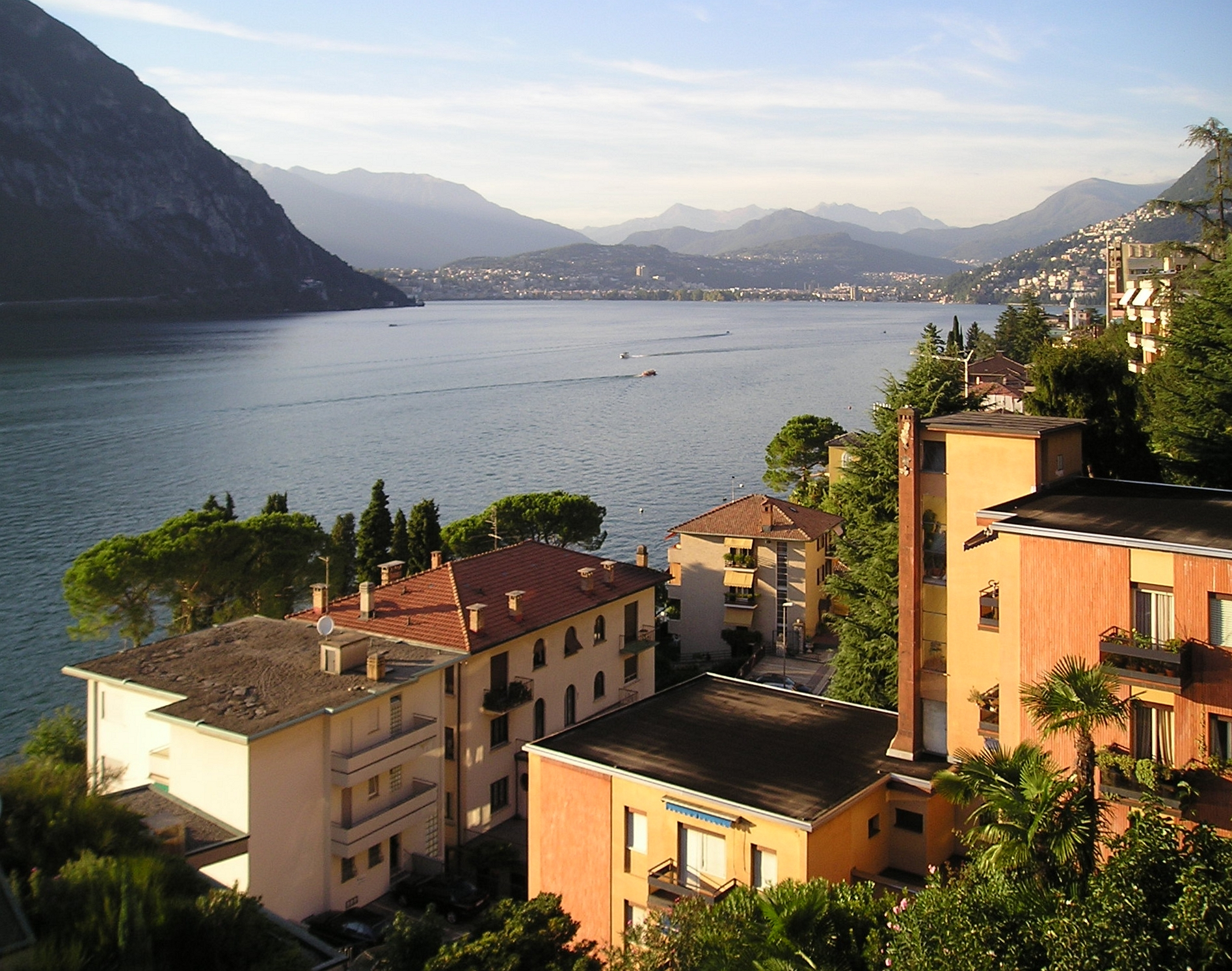 Foreshortening of Campione with Lugano in the background